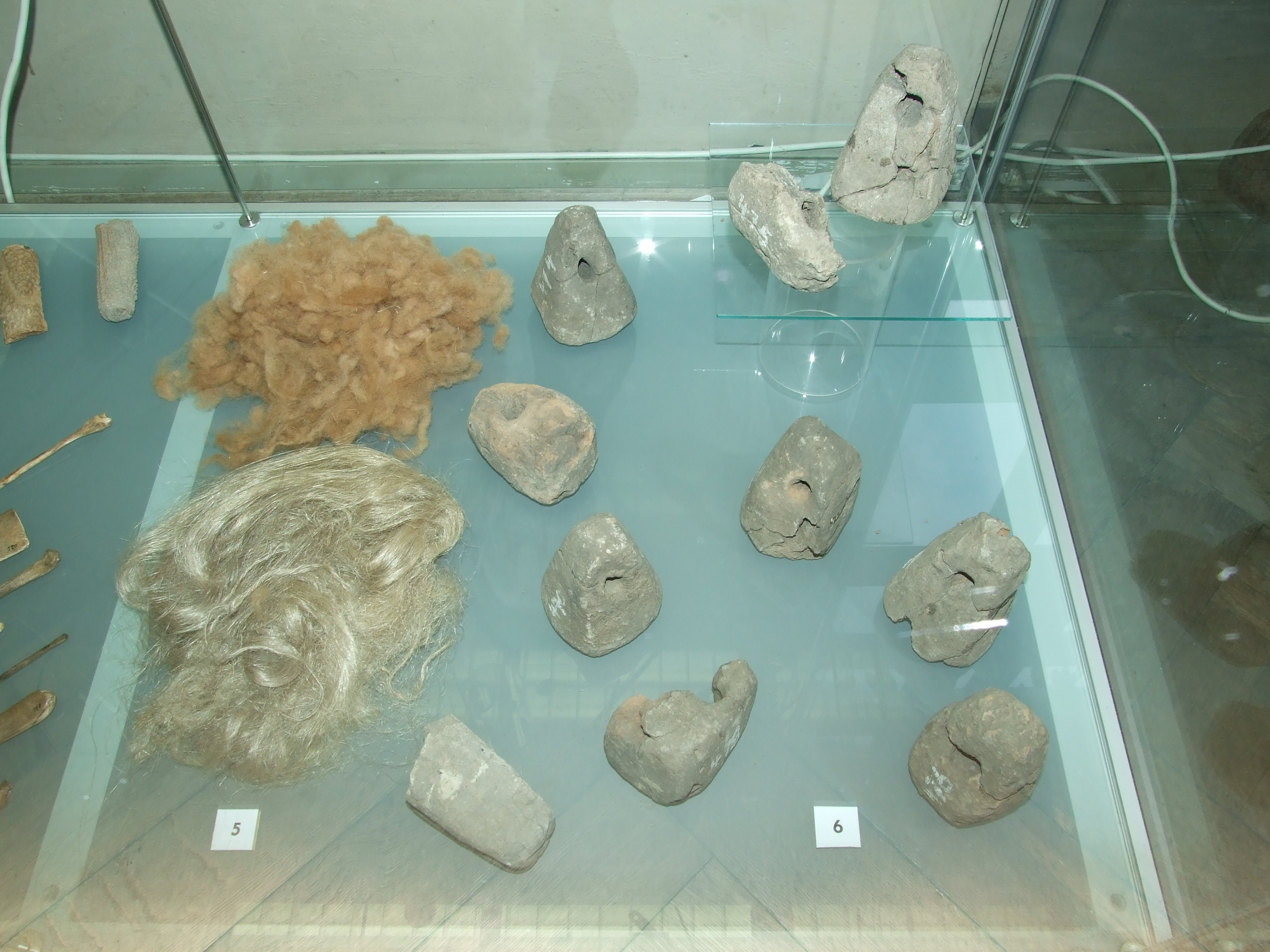 Prehistoric Times of Bohemia, Moravia and Slovakia, National Museum in Prague. Textile working 5. Raw material - fleece, hemp 6. Collection of loom weights (Prague-Kobylisy; Roman Period)